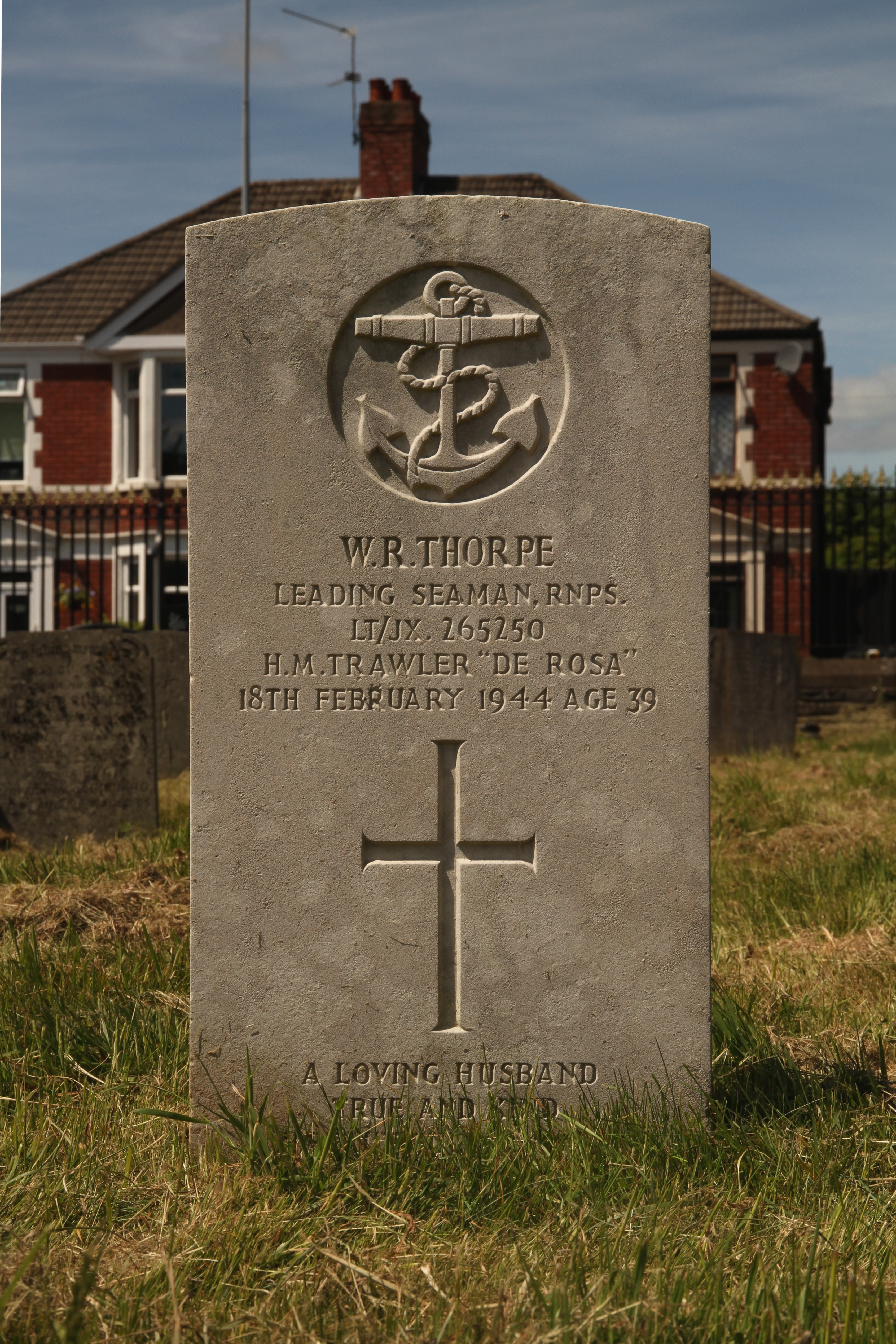 Cathays Cemetery, Cardiff: grave of Leading Seaman WR Thorpe, RN Patrol Service